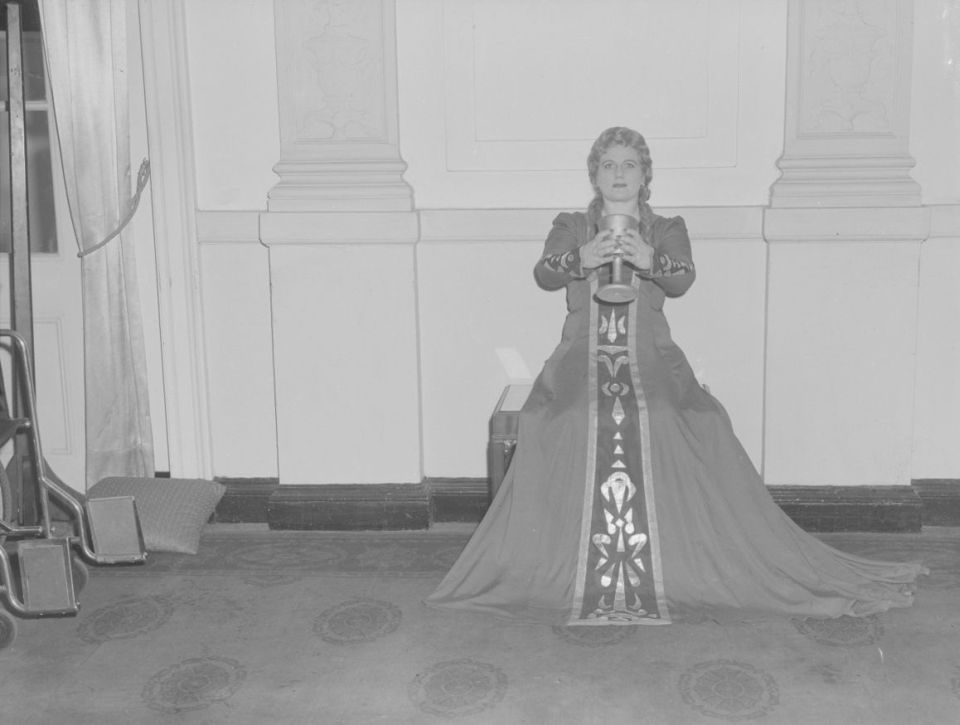 Marjorie Lawrence, an opera singer, holding a cup in his hand during a live performance.